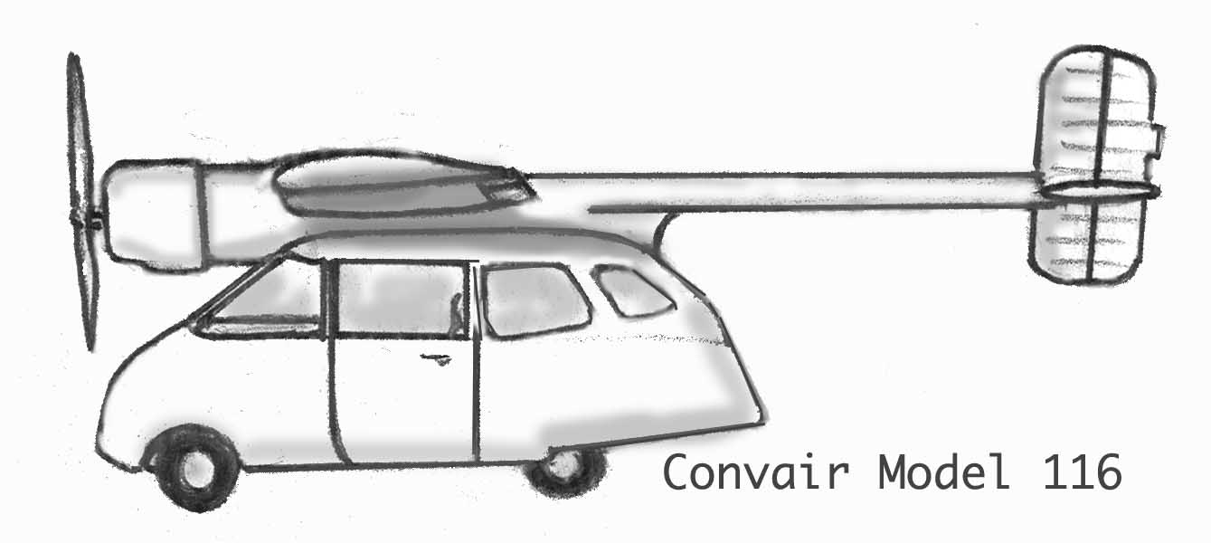 Artist's impression of the Convair Model 116 flying car.